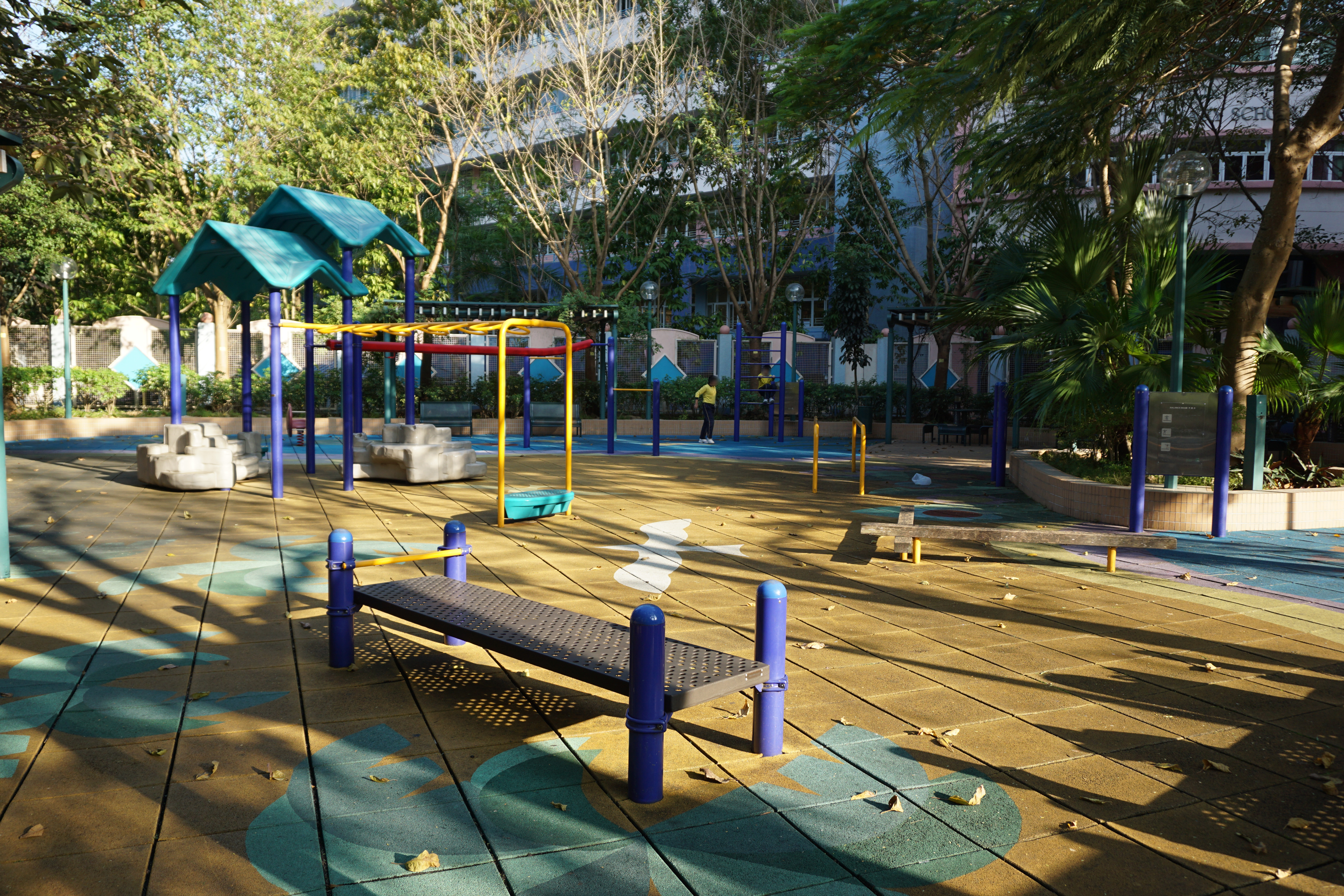 Po Tin Estate in Tuen Mun, Hong Kong.